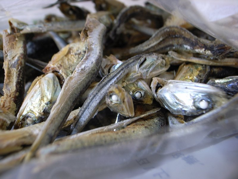 Niboshi; "Ni" means "boiled", "boshi(hoshi)" means "dried".